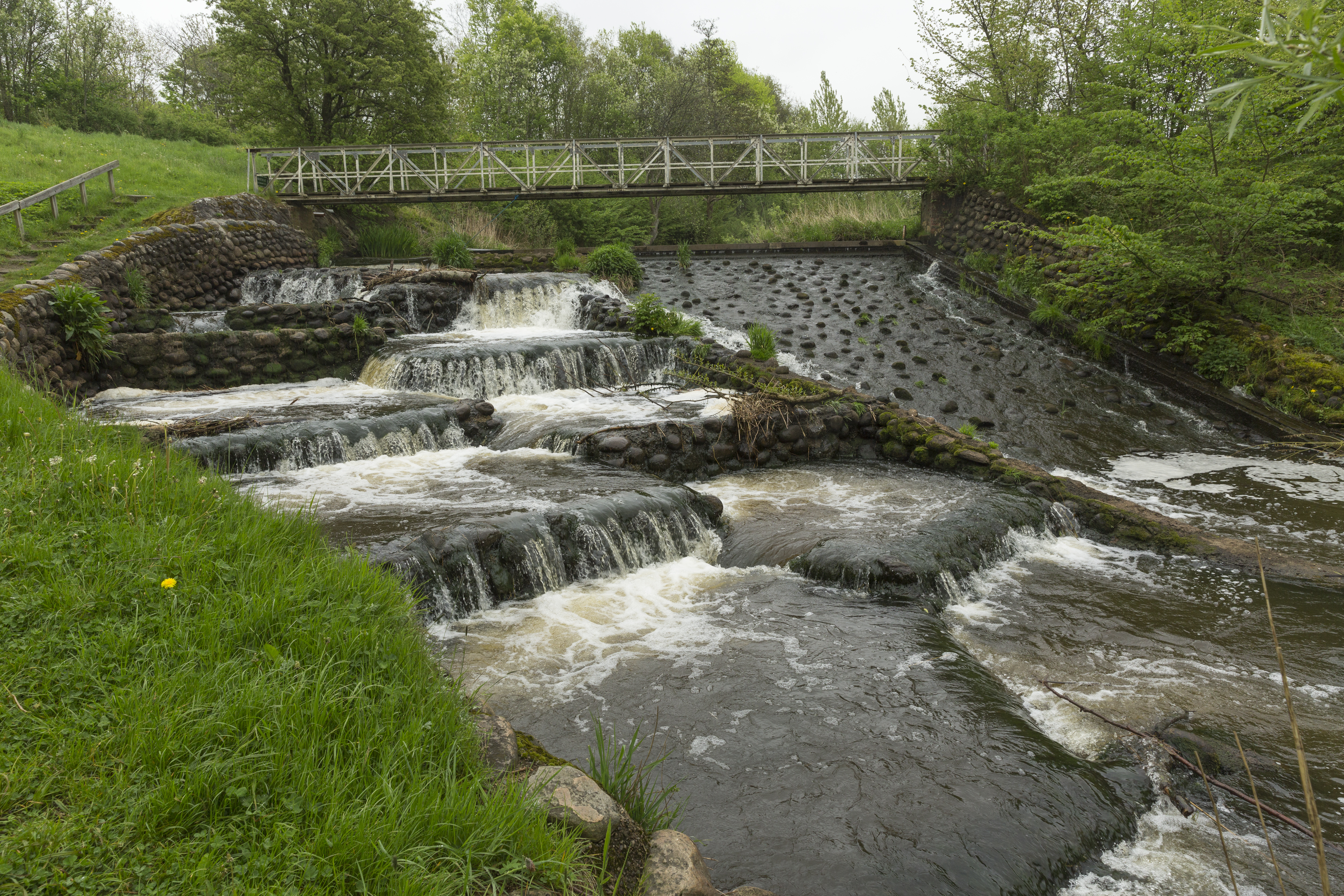 Fish ladder, Uggerby Å (Uggerby stream)